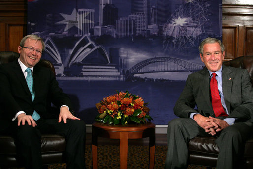 President George W. Bush sits with Kevin Rudd, leader of the Australian Labor Party, during a meeting Thursday, Sept. 6, 2007, in Sydney.